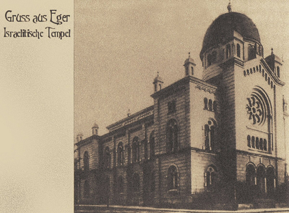 A collage of my own of the former [destroyed] synagogue of Cheb [Eger], Czechoslovakia with retro writing. Česky: Mnou vytvořená koláž dobového pohledu synagogy v západočeském Chebu s retropopiskami.